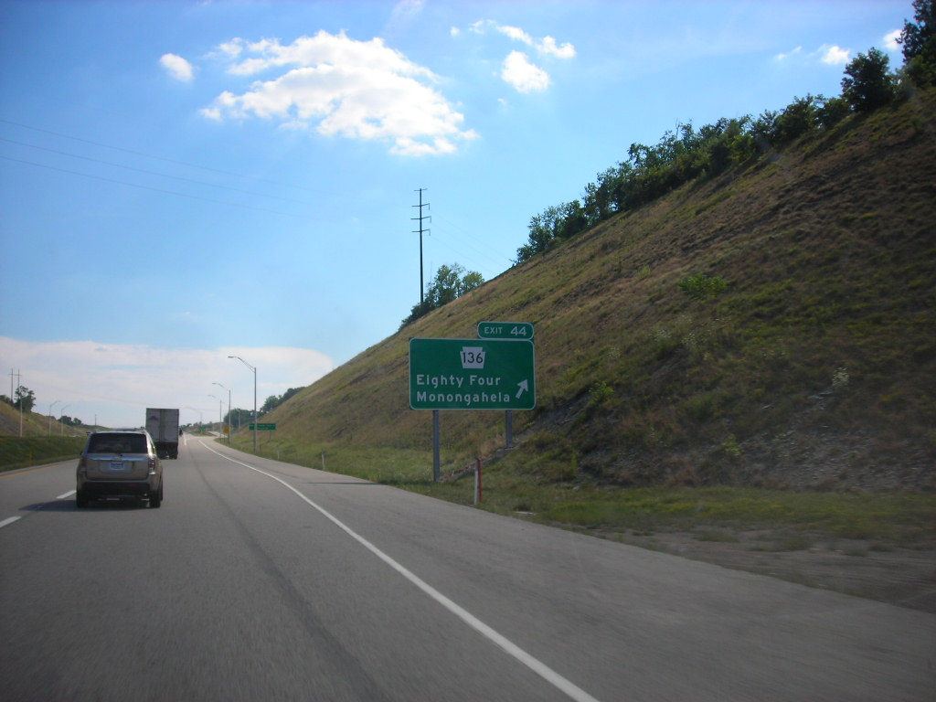 Exit 44 of the Mon–Fayette Expressway in Carroll Township, Washington County, Pennsylvania, leading to Pennsylvania Route 136.